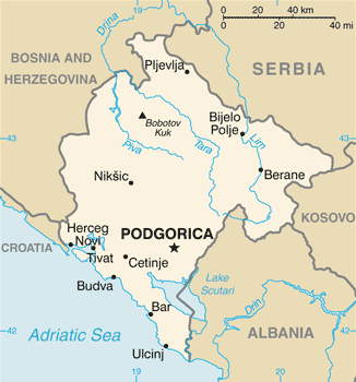 Map of Montenegro from the CIA Factbook.